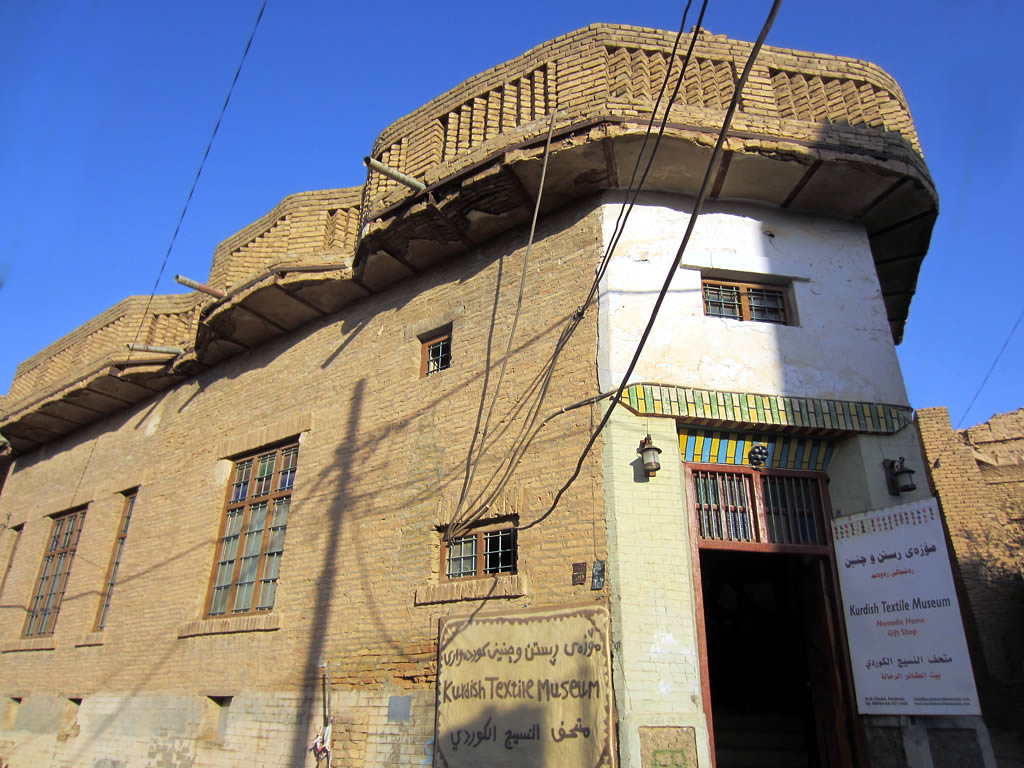 The Kurdish Textile Museum occupies a 19th century house in Erbil Citadel.